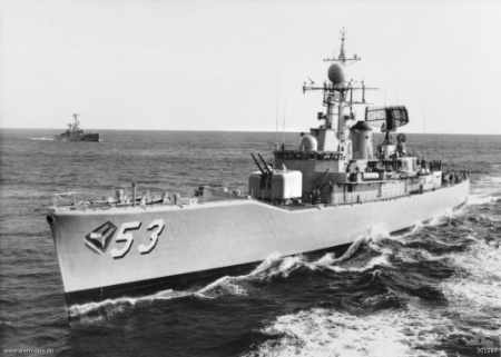 AWM caption: PORT BOW VIEW OF THE DESTROYER ESCORT HMAS TORRENS (II) (53). THE TWIN 4.5 INCH MARK 6 GUN MOUNT FORWARD IS CONTROLLED BY THE M22 GUNNERY RADAR ENCLOSED IN THE SPHERE AT THE MASTHEAD. JUST BELOW IT IS THE 8GR301 NAVIGATION SURFACE SEARCH RADAR. THE LARGE ANTENNA ABAFT THE FUNNEL IS FOR AN LW02A AIR SEARCH RADAR. IMMEDIATELY BEHIND IT IS THE M44 RADAR WHICH CONTROLS THE SEACAT CLOSE RANGE SURFACE TO AIR GUIDED MISSILE SYSTEM, THE LAUNCHER FOR WHICH IS MOUNTED A DECK LOWER. IN THE BACKGROUND IS THE DESTROYER ESCORT HMAS YARRA. NOTE THE DIFFERENT POSITIONING OF THE LW02 ANTENNA. (NAVAL HISTORICAL COLLECTION)